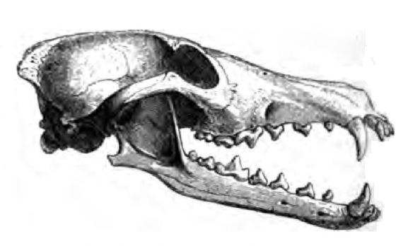 Keberow (Ethiopian wolf) skull